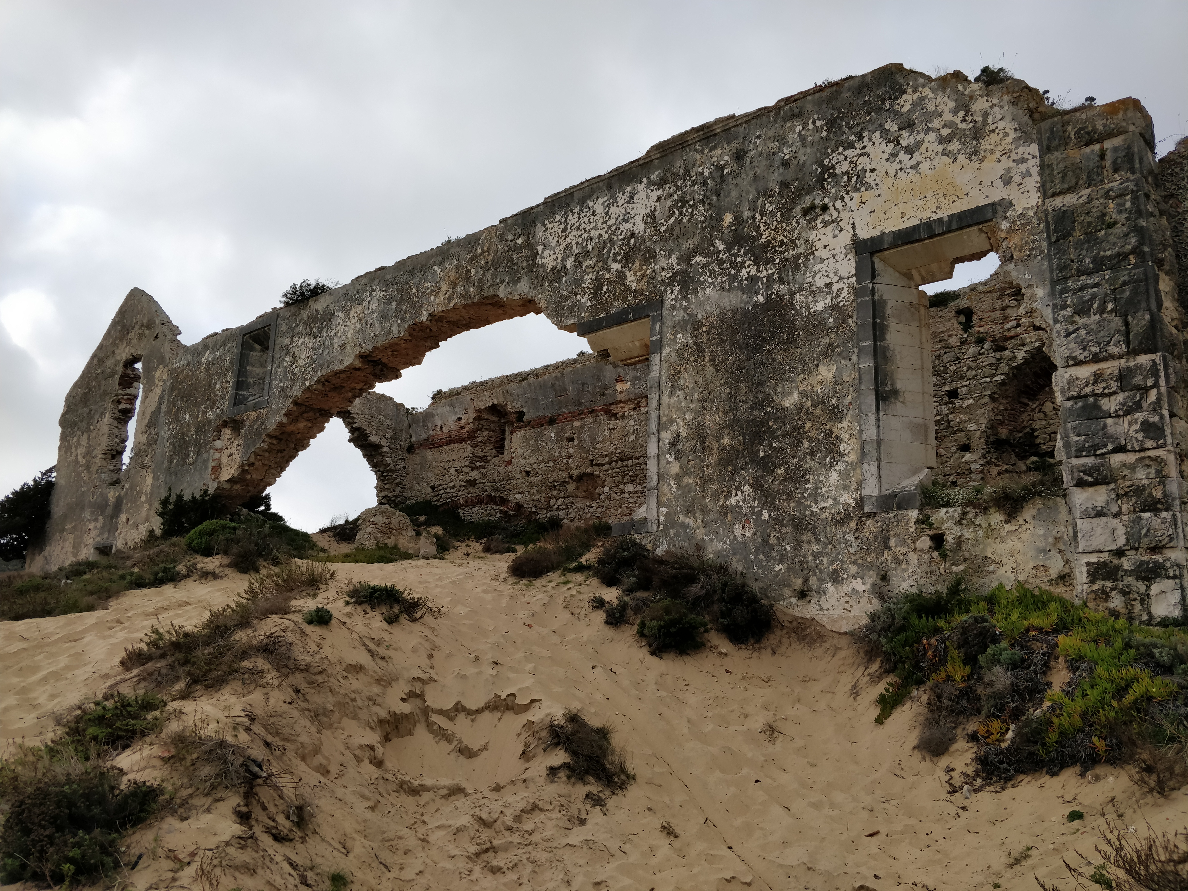 View of the ruins of Penafirme Convent near Ribamar, Lisbon District, Portugal